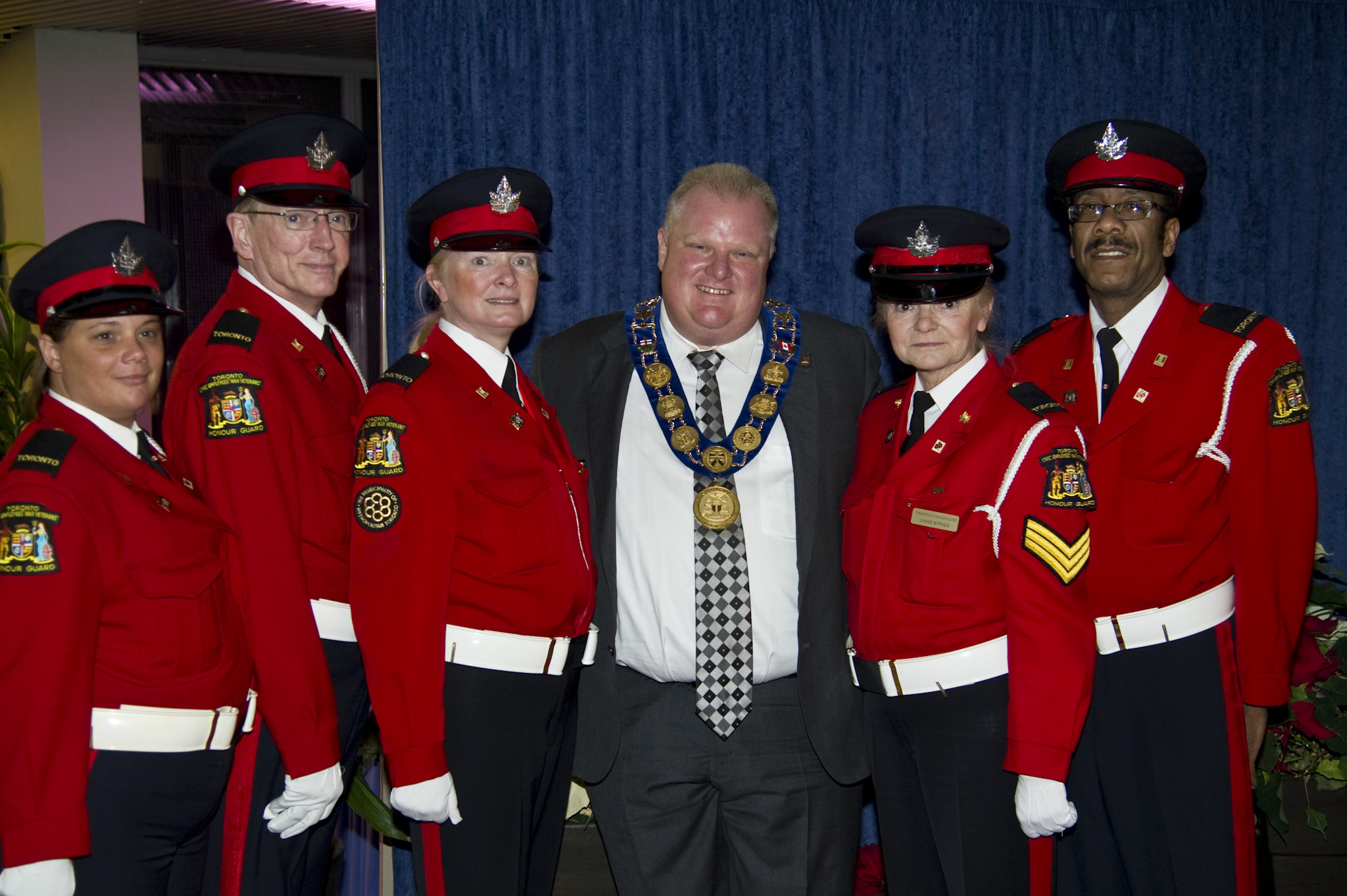 Mayor Ford with an honour guard of civic employee war veterans at the annual Mayor's New Years Levee at Toronto City Hall.